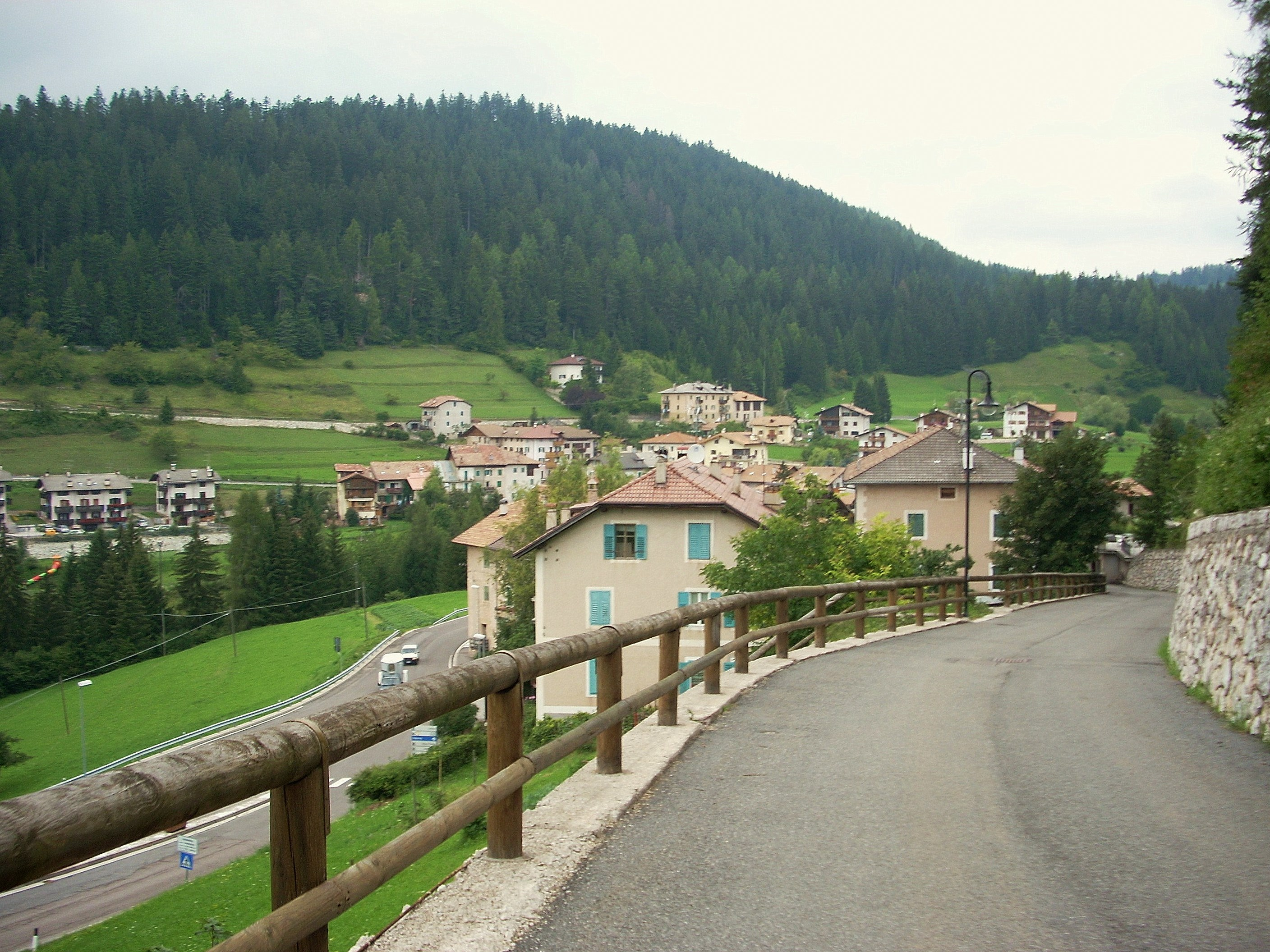 Ruffrè-Mendola, municipality in the Province of Trento